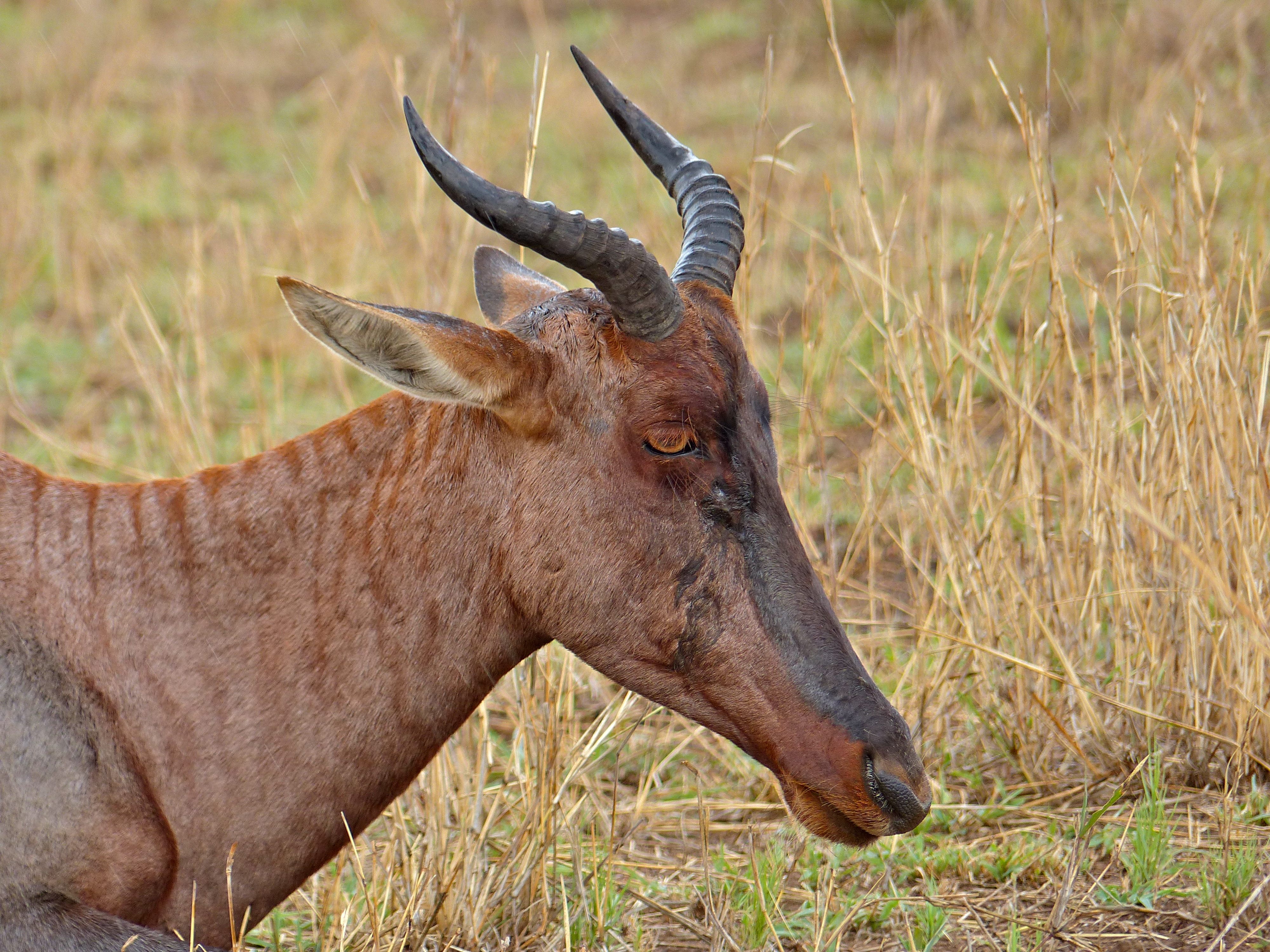 S49 Road South of Mopani , Kruger NP, SOUTH AFRICA